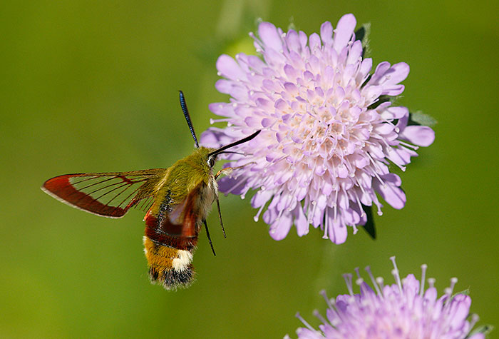 Hemaris fuciformis in Estonia